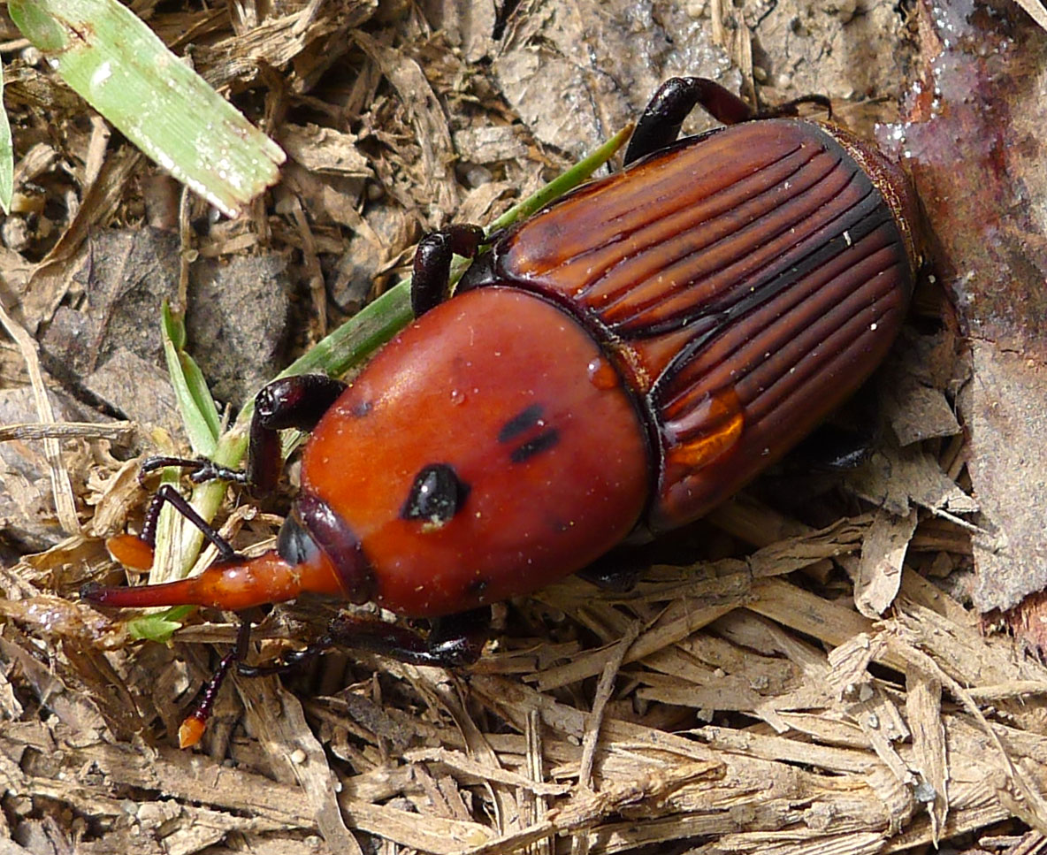 Found floating downstream and rescued